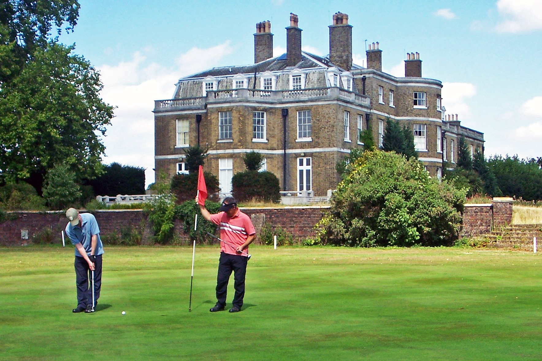 two people playing golf in front of a country house